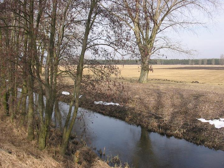 Stream „Plane“ nearby the bird observation station in the „Belziger Landschaftswiesen“ („territory grassland near the town Belzig“) in Brandenburg